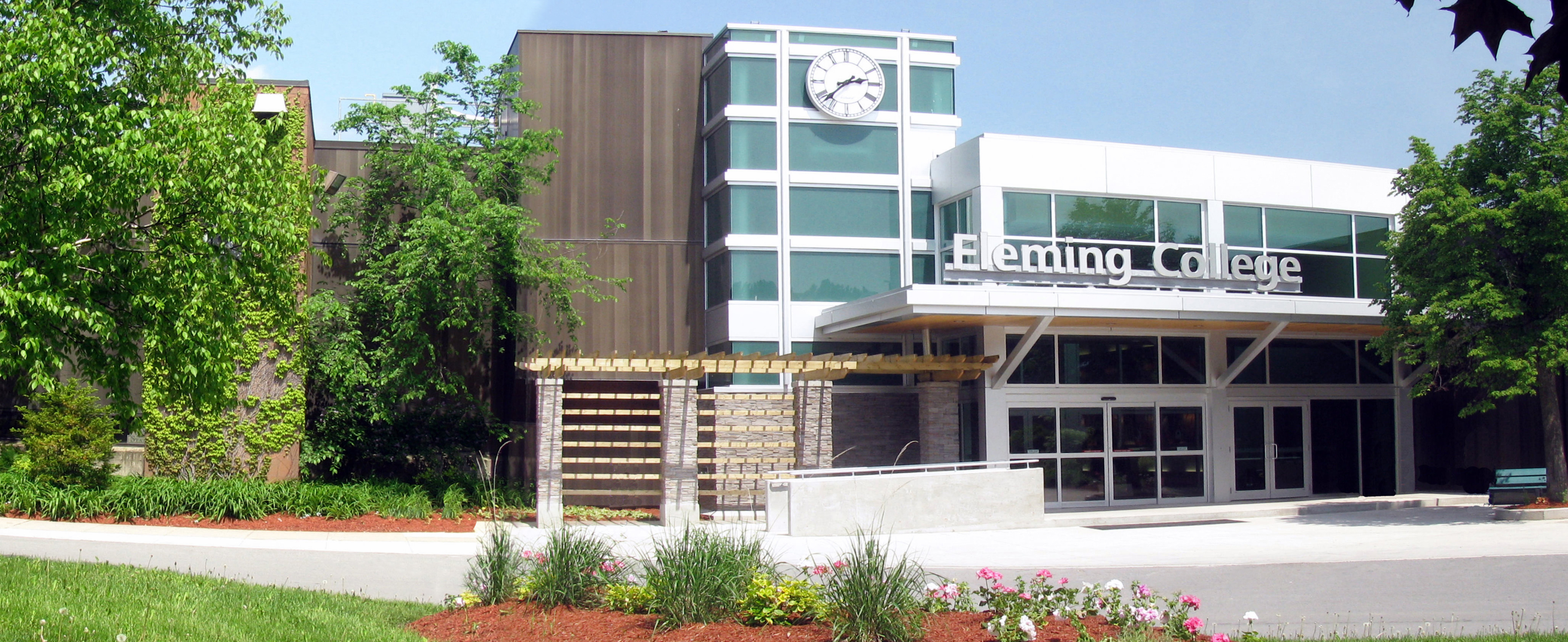 Sutherland Campus front entrance